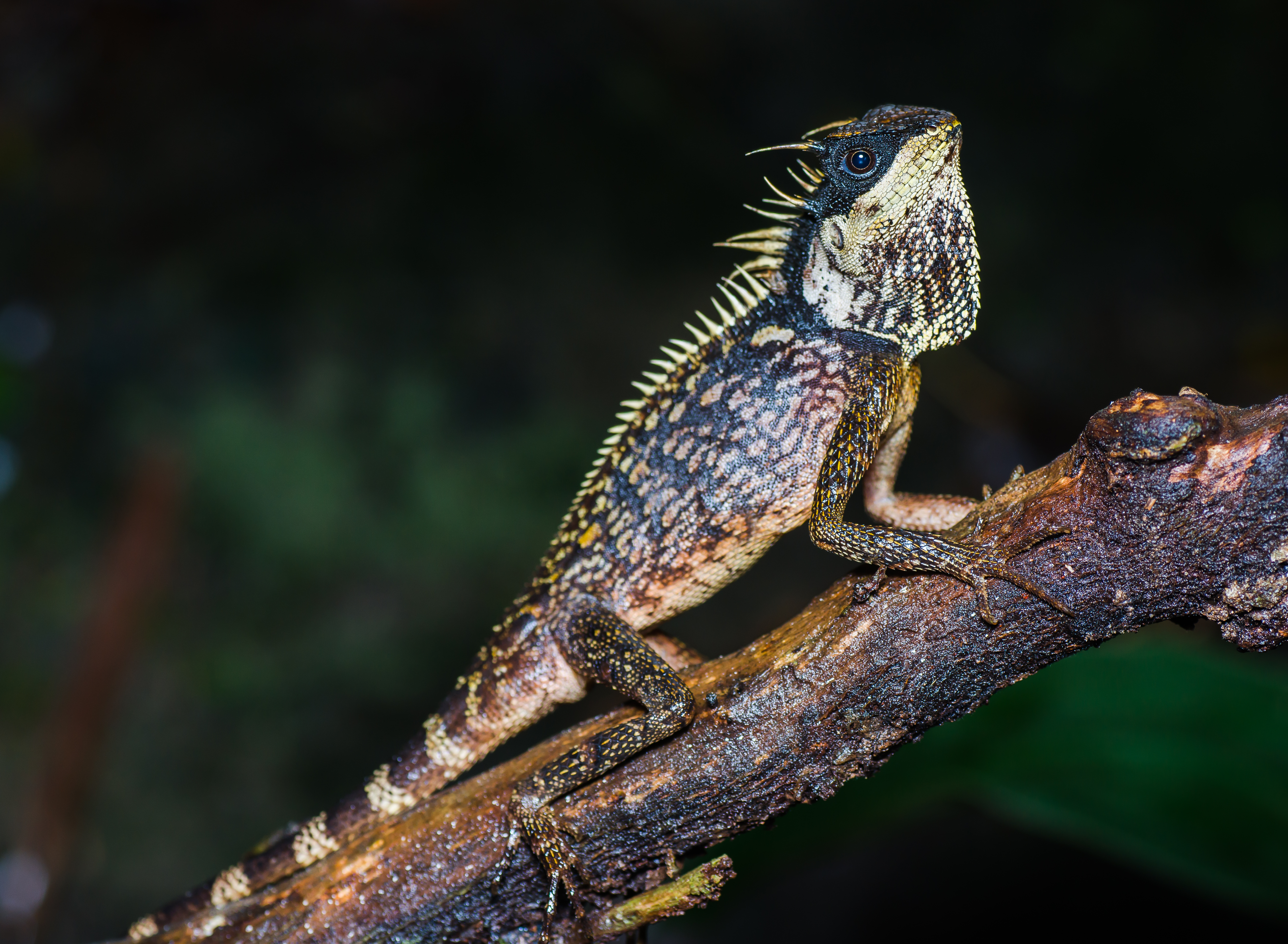 Khao Sok National Park